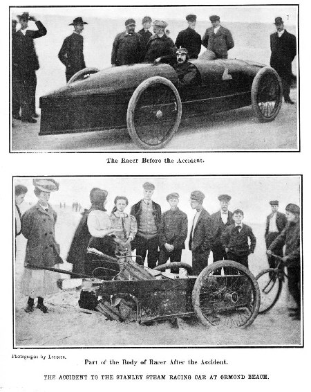 1906 World Speed Record Stanley Steamer, wrecked 1907